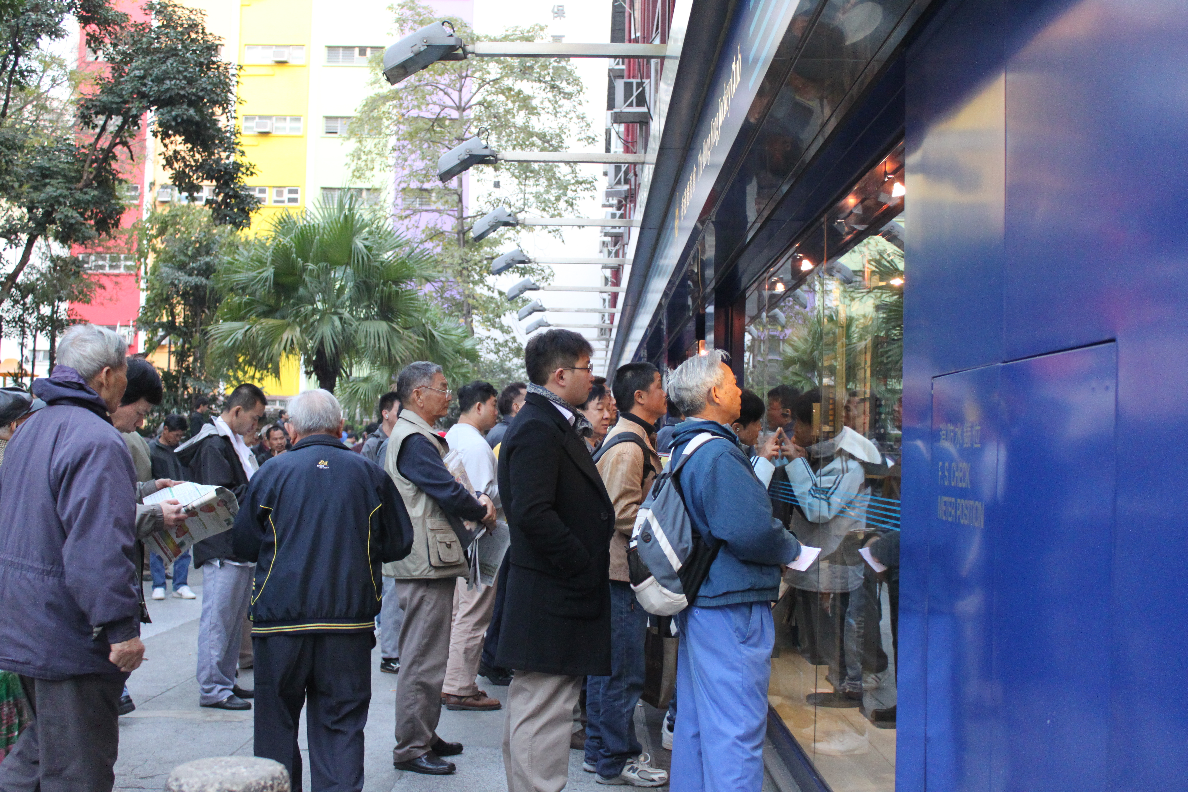 San Po Kong HKJC